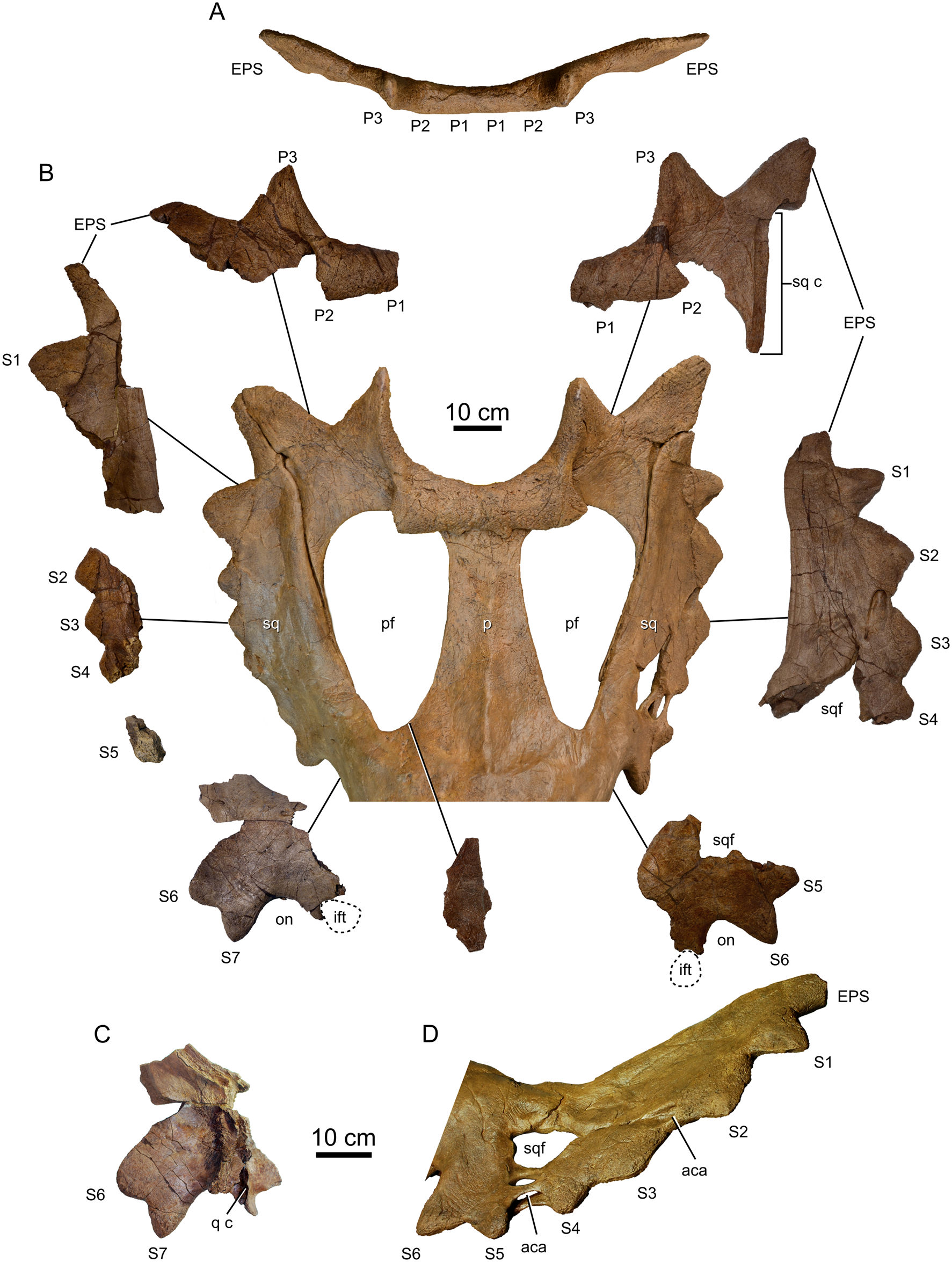 Parietosquamosal frill of Spiclypeus shipporum gen et sp. nov. (CMN 57081). (A) Posterior parietal bar in posterior view; (B) reconstructed frill and related fossil material; (C) portion of anterior right squamosal in medial view; (D) reconstructed left squamosal showing fenestrae and associated abscess cavities.